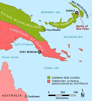 Simple outline map of New Guinea and SW Pacific with political borders and nomenclature as prevailed in 1914 at the time of Battle of Bita Paka. Location of battle is highlighted.